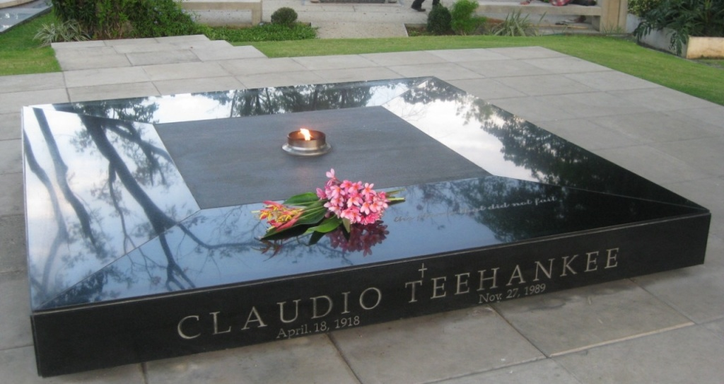 This is a picture of the grave site of CJ Teehankee with the flame lit and flowers on top.